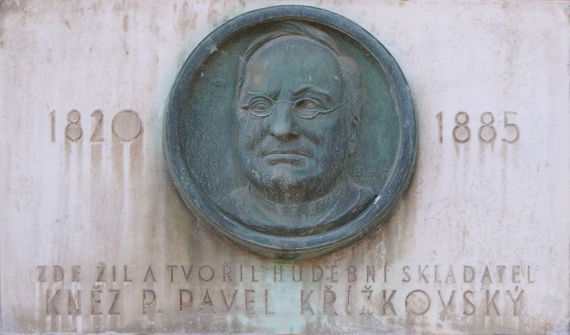 Memorial plaque of Pavel Křížkovský in Olomouc (Czech Republic) made by Karel Lenhart.